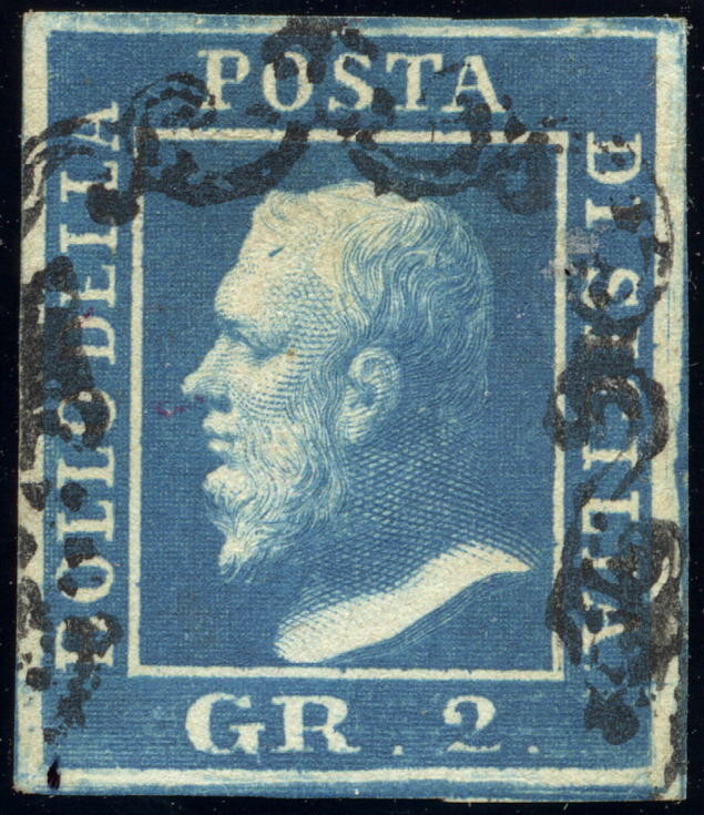 Postage stamp of Sicily (Scott cat no 13) issued in 1859)